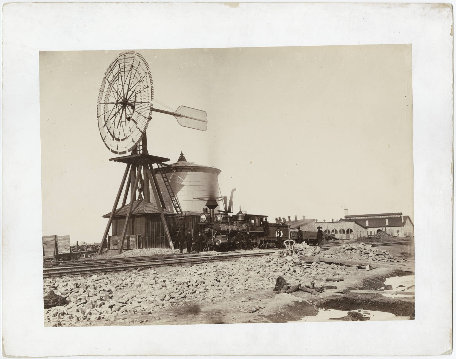 "Windmill at Laramie," black and white photograph by the American photographer Andrew J. Russell. 28.2 cm x 35.5 cm. Part of collection of photographs taken during construction of Union Pacific Railroad, 1864-1869. Yale Collection of Western Americana, Beinecke Rare Book and Manuscript Library, Yale University, New Haven, Connecticut.